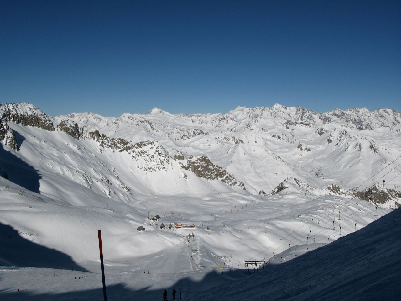 Glacier (Ghiacciaio) Presena view from ski resort Tonale ,group of Cevedale and Bernina.jpg